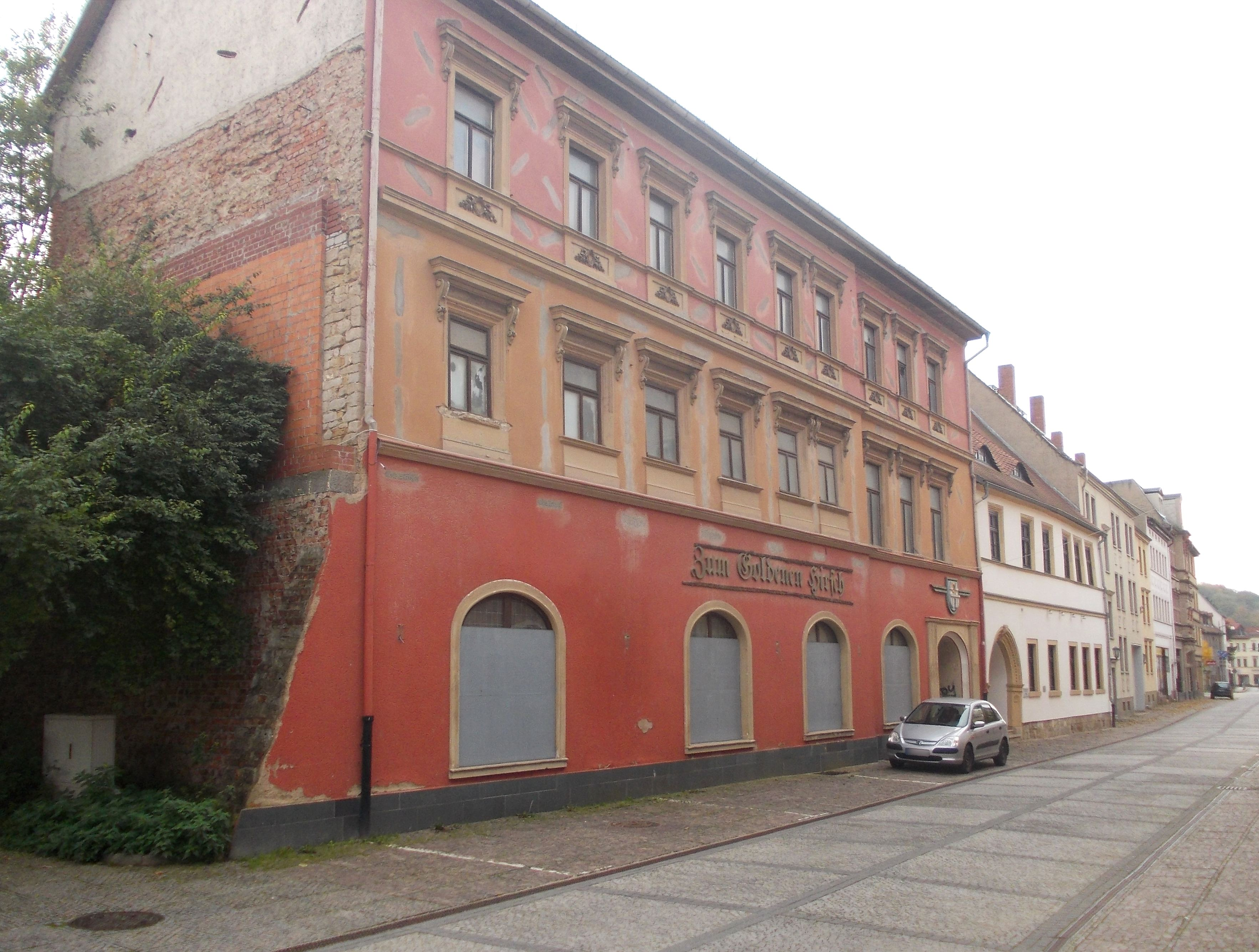 No. 10, Nikolaistrasse in Weissenfels (district: Burgenlandkreis, Saxony-Anhalt), former inn Zum Goldenen Hirsch